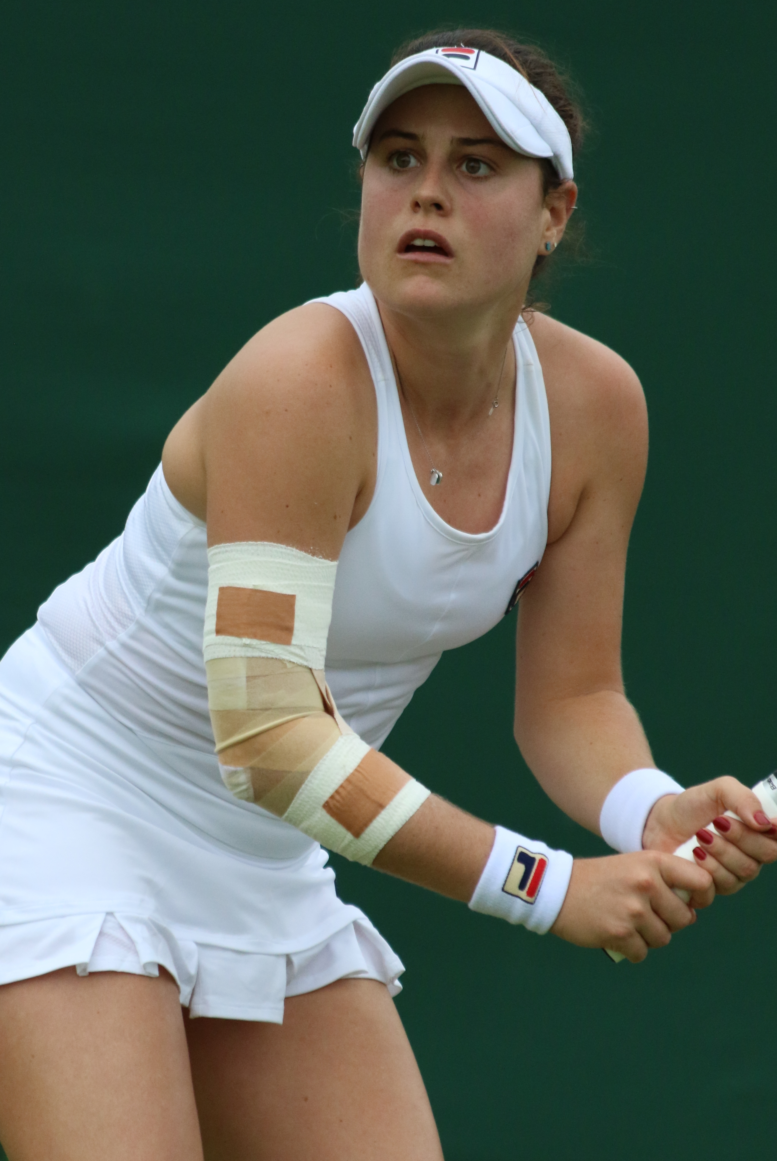 2019 Wimbledon Qualifying Tournament.